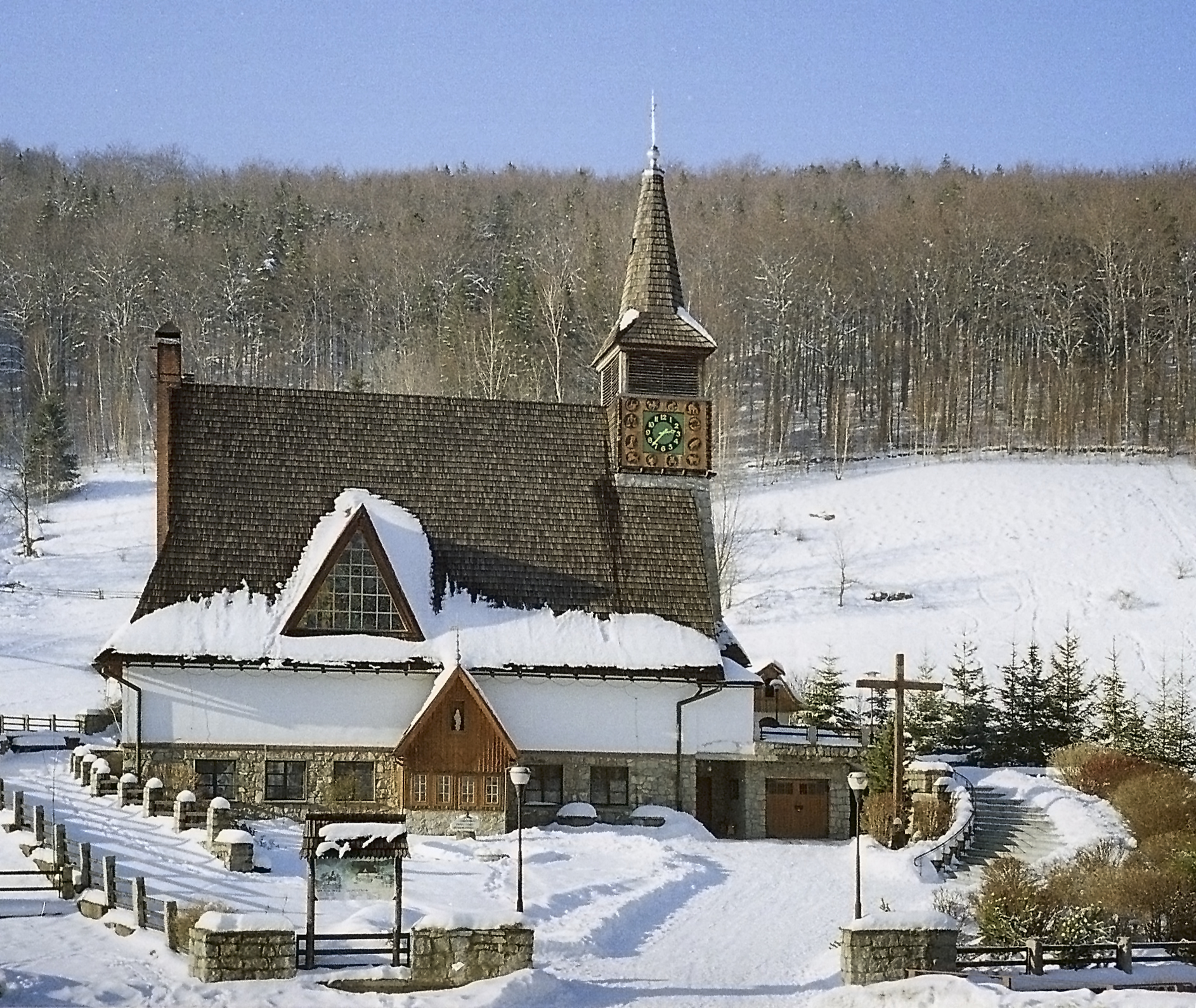 Church in Jagniątków, Karkonosze Mountains, Poland